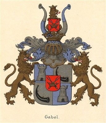 Coat of arms of the Gabel family